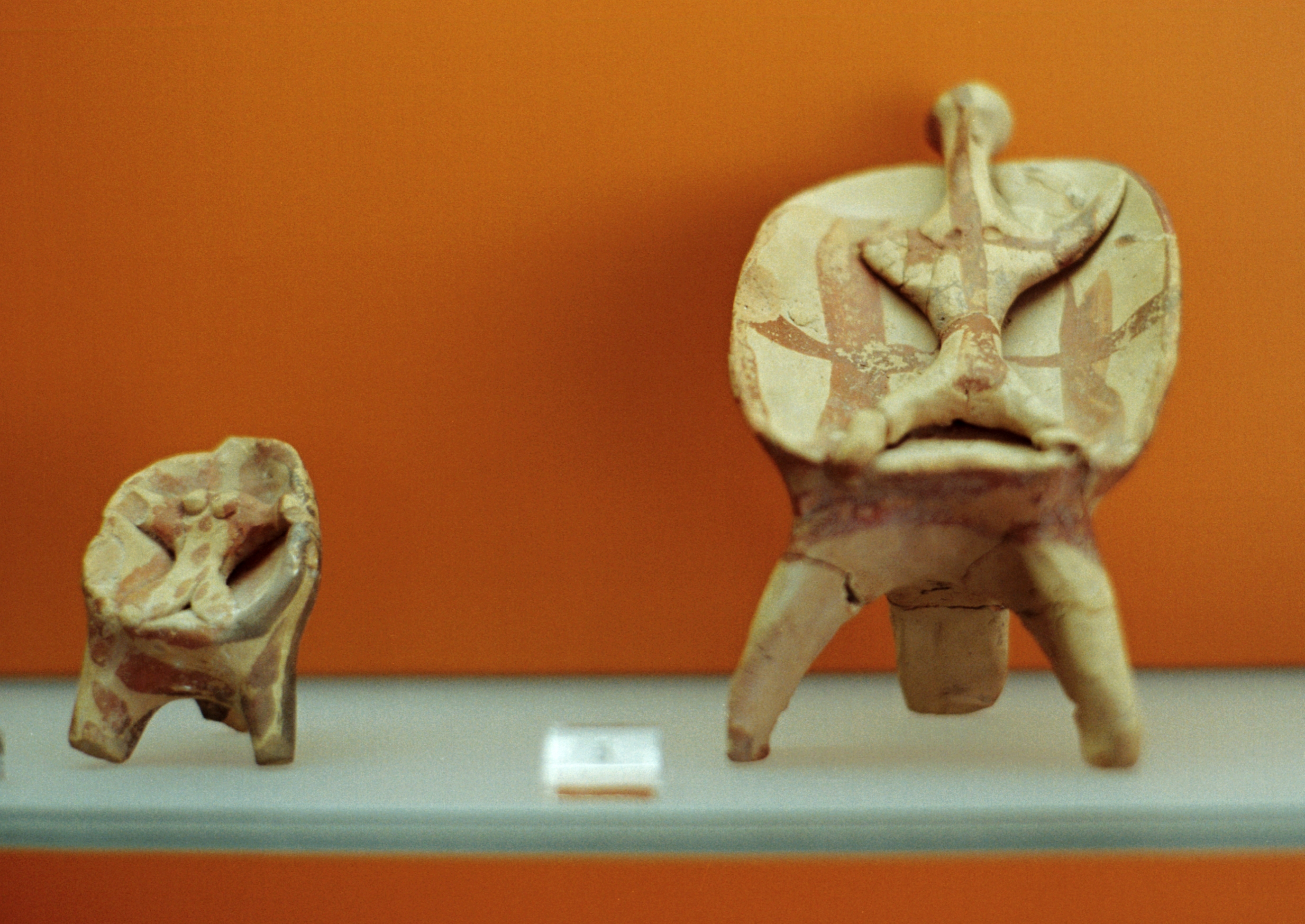 Mycenaean figurines, sitting, Bird goddesses, 1400-1050 BC. Late Bronze Age. Archaeological Museum of Delphi.